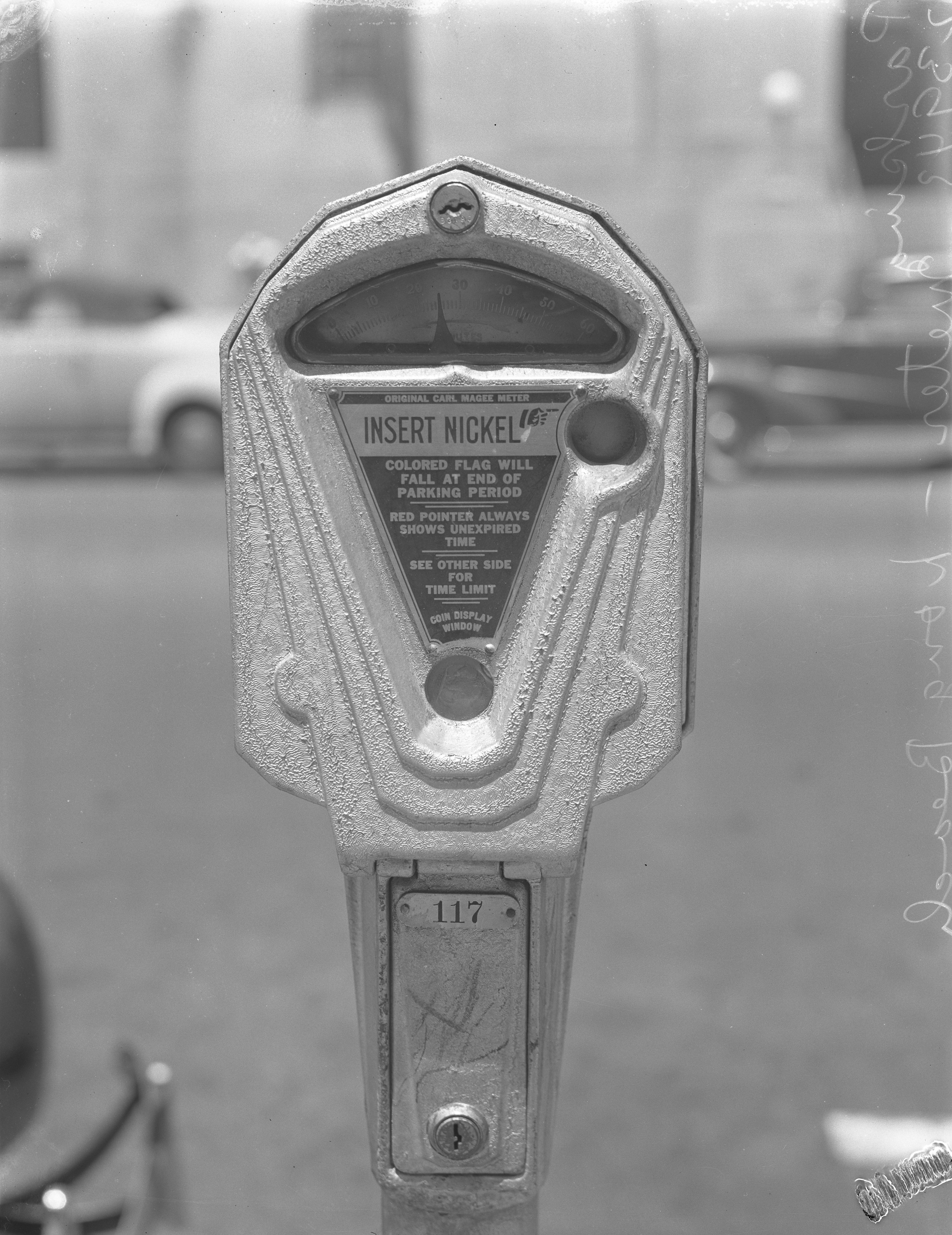 Title: Close up of parking meter in Long Beach, Calif., circa 1940 Publication:Los Angeles Daily News Publication date:1940 Subjects: Automobile parking--California--Long Beach Long Beach (Calif.) Source:Los Angeles Times photographic archive, UCLA Library Licensing Note about non-renewal of copyright: [1]